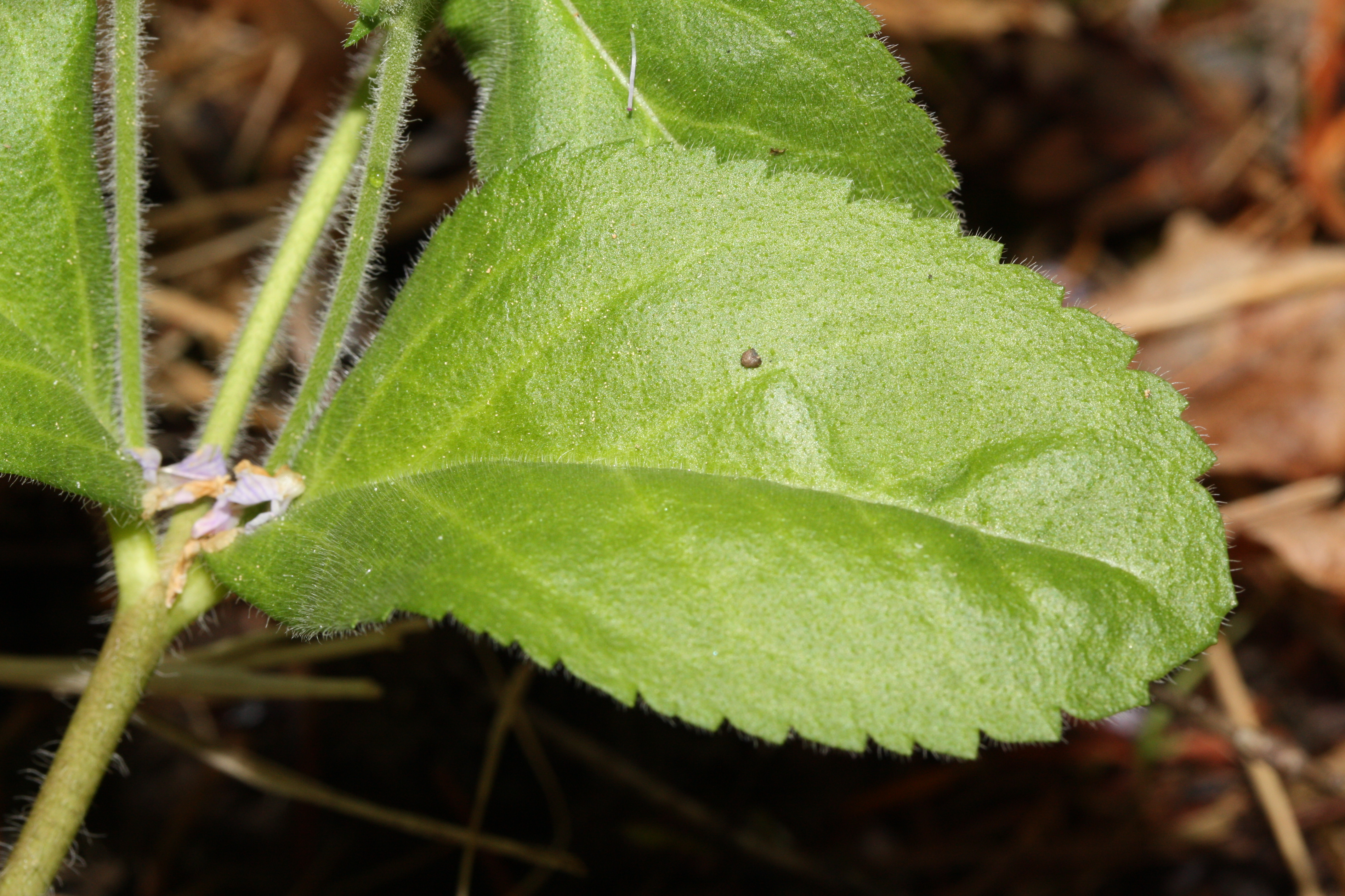 Common Gypsyweed, Herbal Speedwell, Paul's Betony